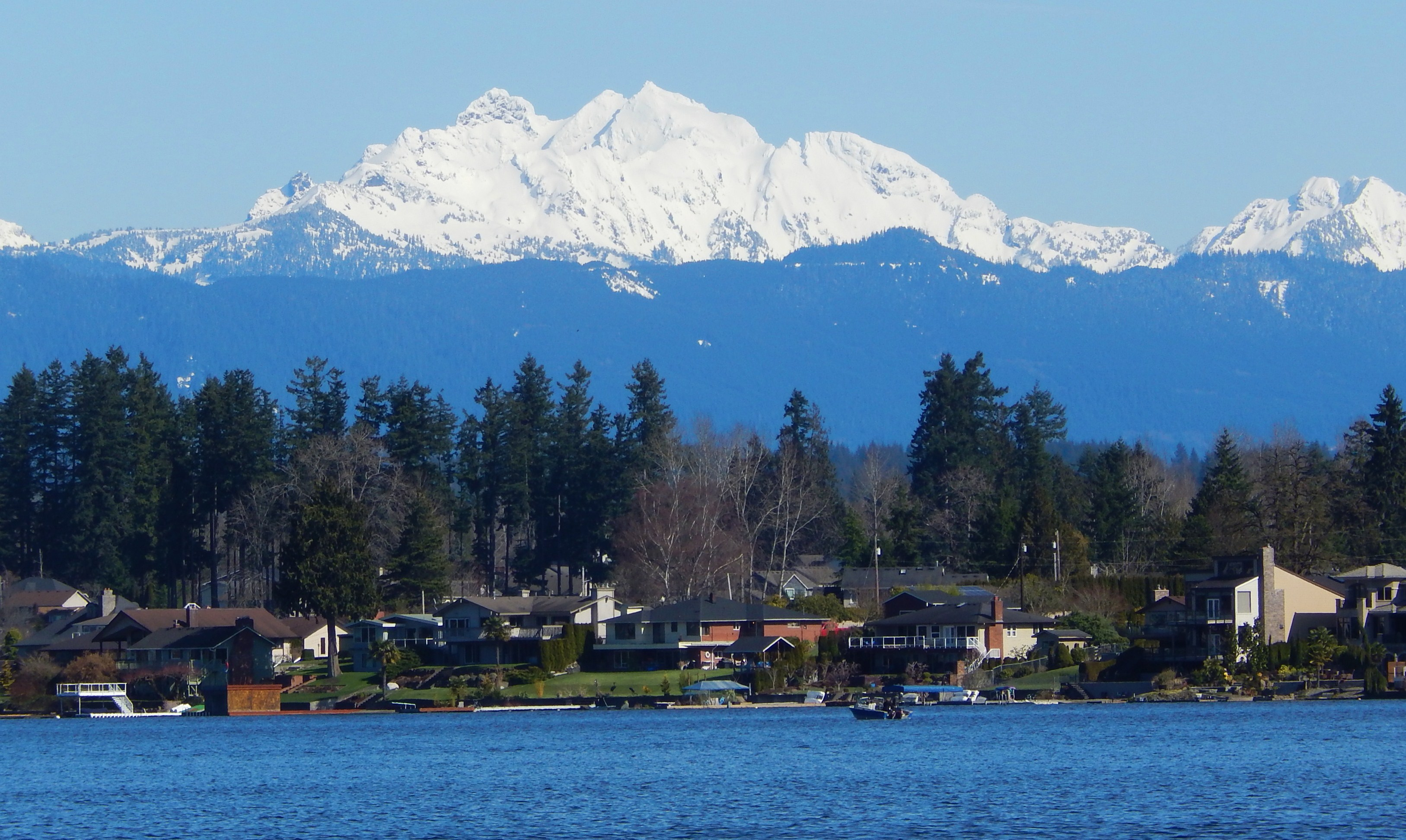 Three Fingers seen from Lake Stevens WA